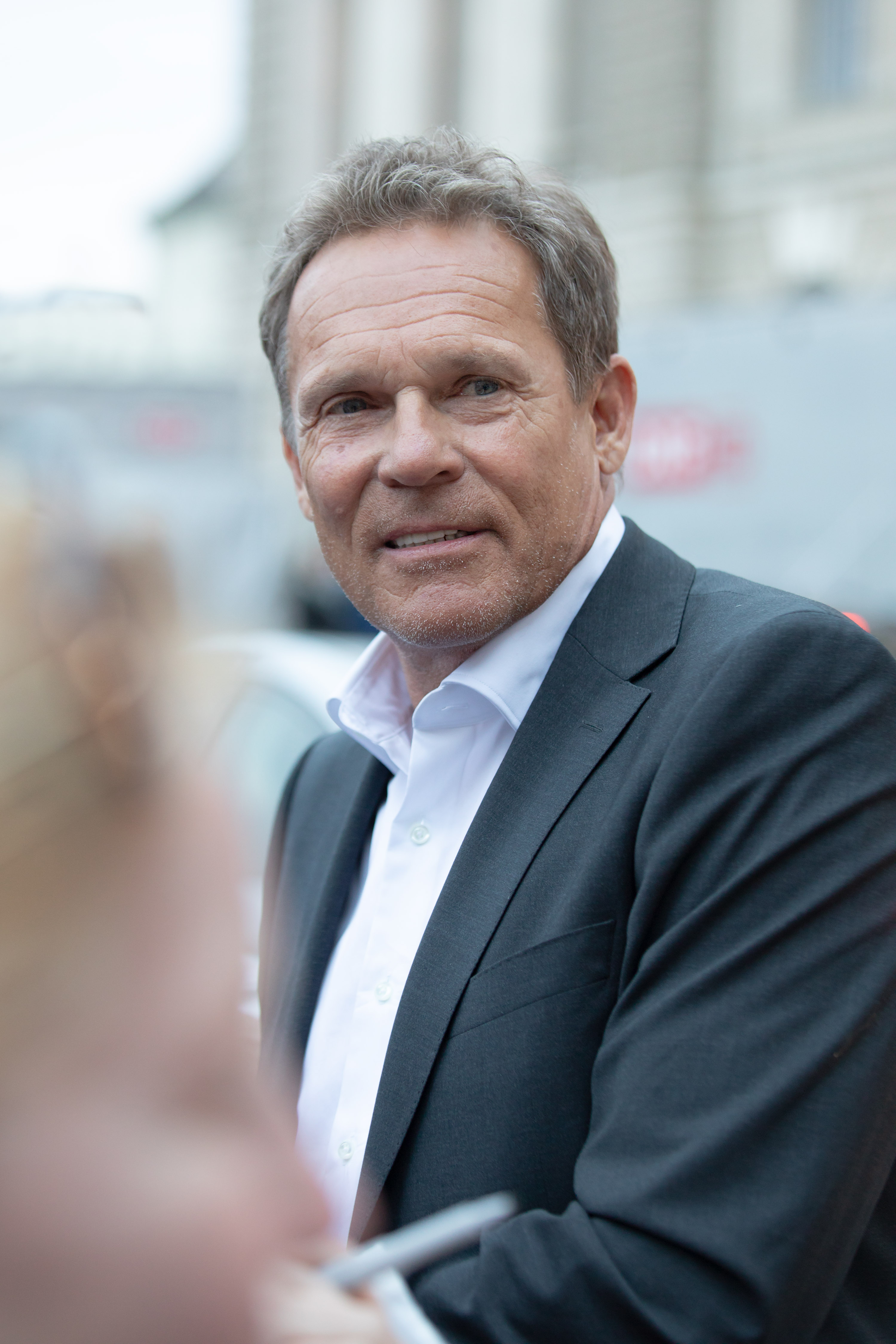 Christian Tramitz on the red carpet of the Romy TV awards 2018 at Hofburg Palace in Vienna, Austria.